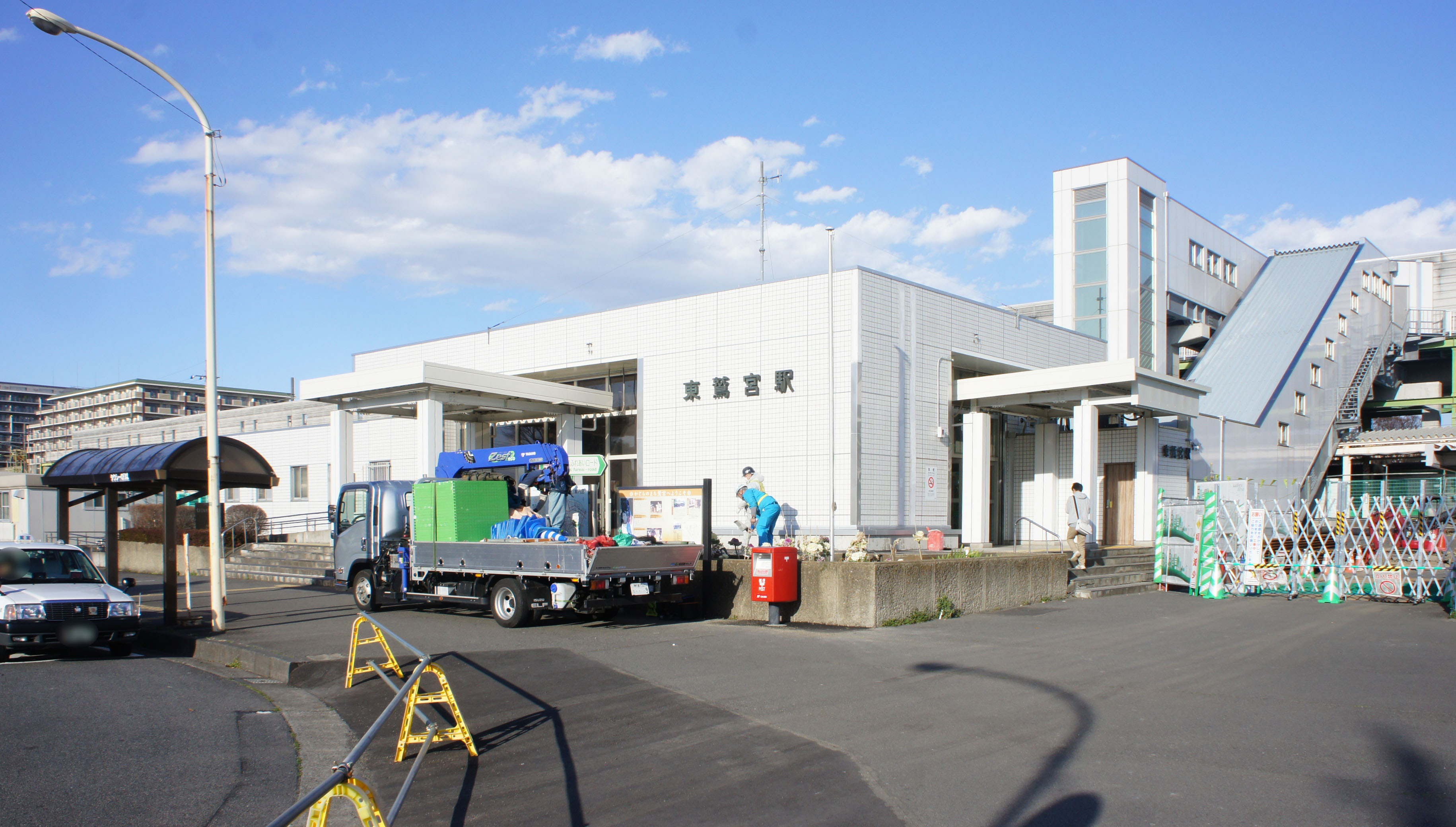 Station building of JR Tohoku-Main-Line (Utsunomiya-Line) Higashi-Washinomiya Station Sony NEX-3